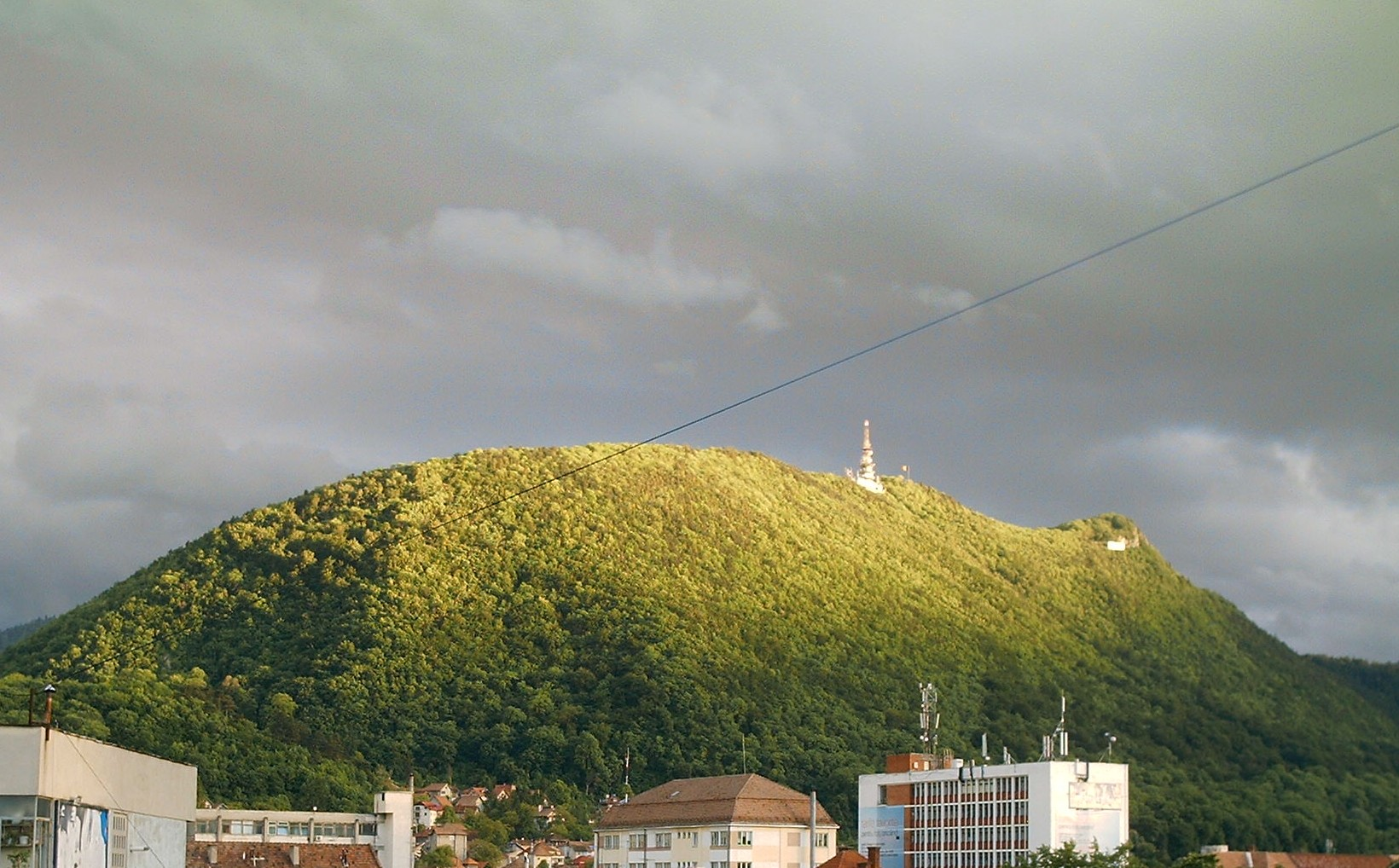 The Tâmpa mountain from Braşov (Kronstadt), Romania